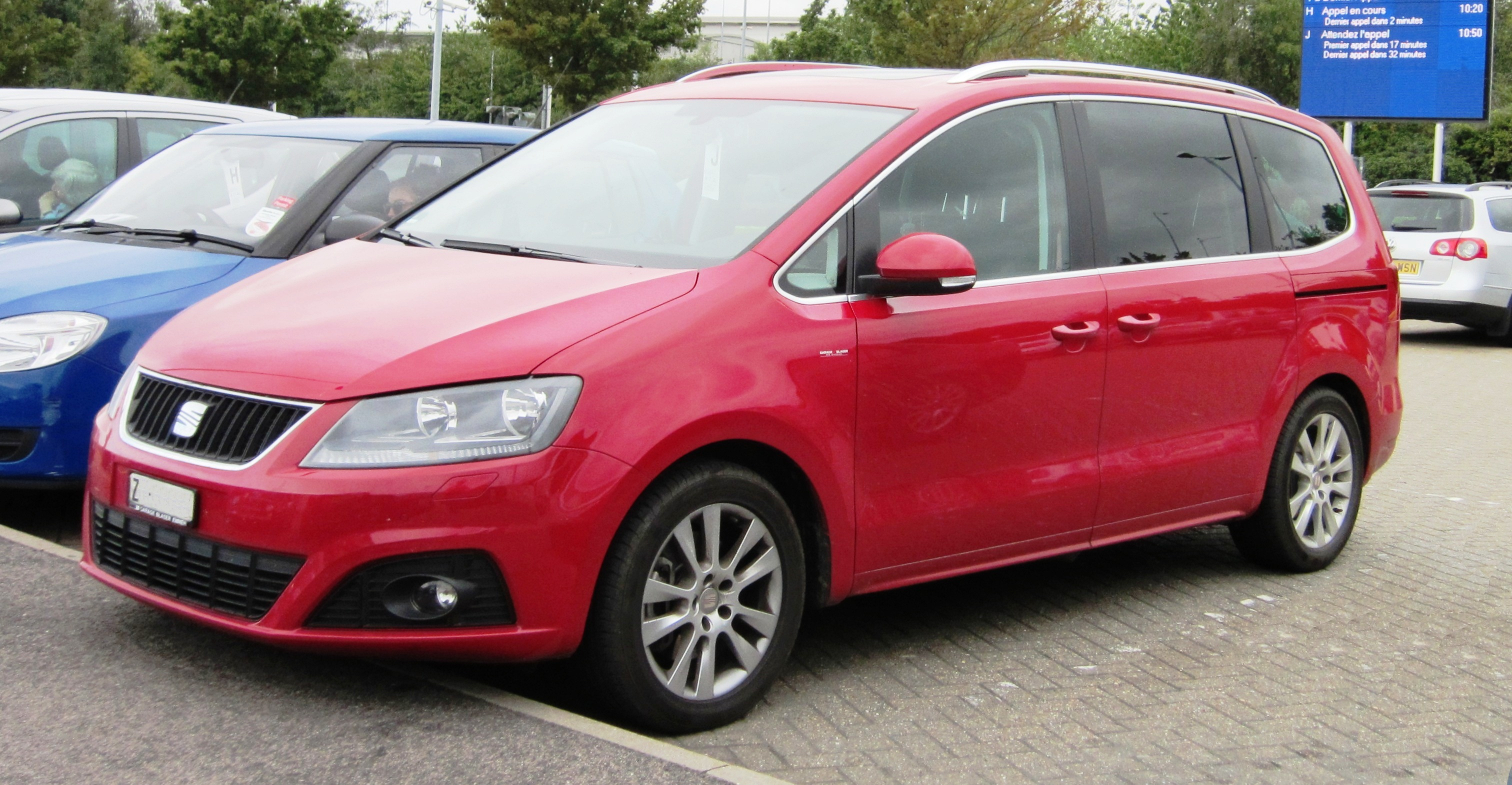 Seat Alhambra ca 2011